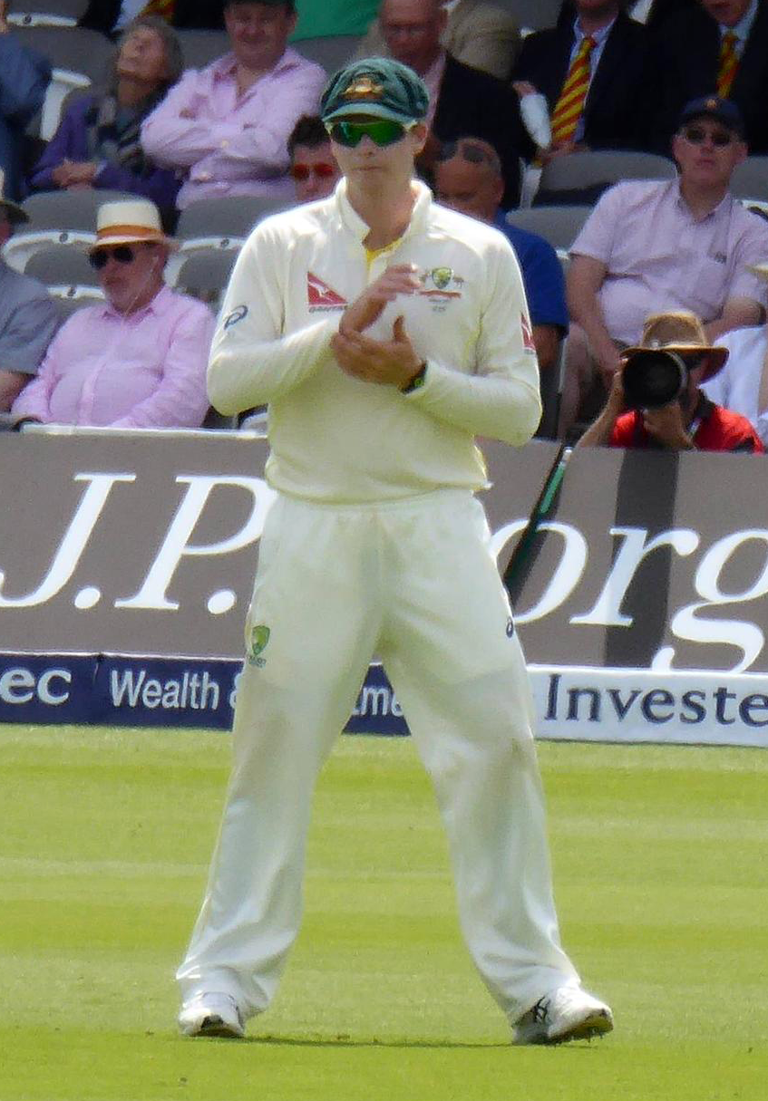 Steve Smith in the field during a Test match.